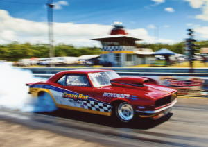 Hilo Drag Strip the Home of "Crazy Rat". Hilo's First Doors Slammer to run in the 7 Seconds in the early 1990's